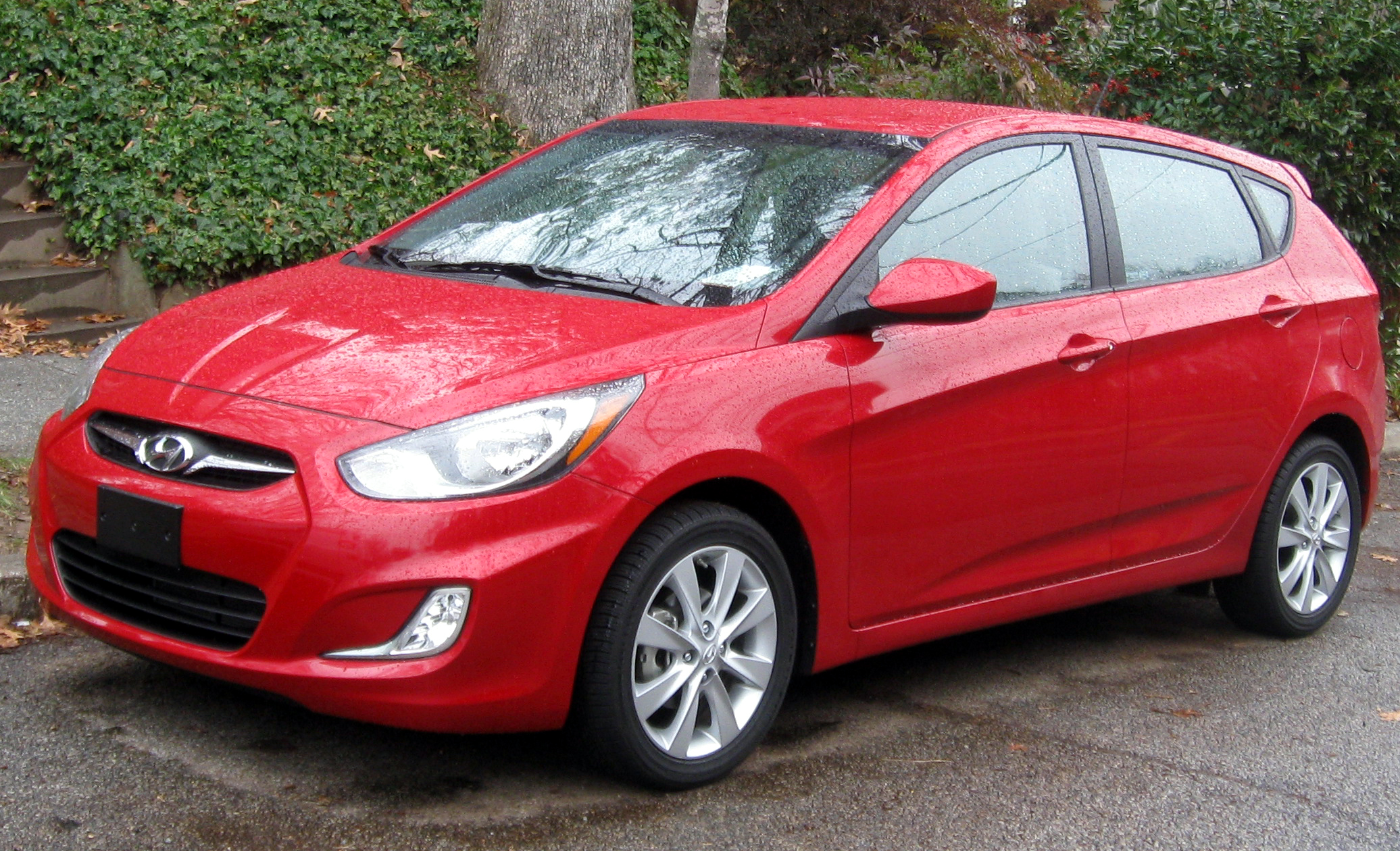 2012 Hyundai Accent photographed in Washington, D.C., USA.